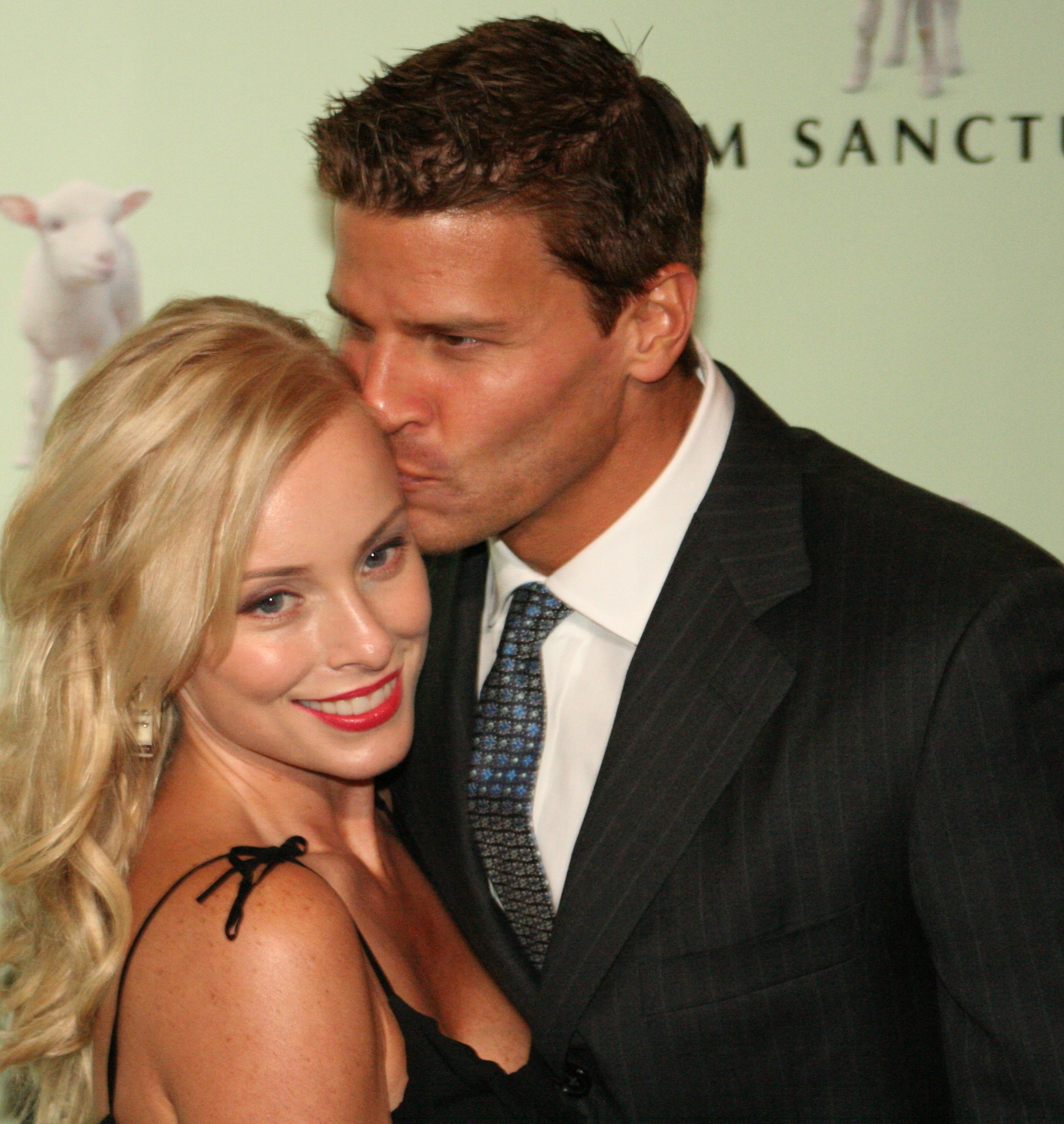 American actor David Boreanaz and wife, American model Jaime Bergman at "Farm Sanctuary Gala".